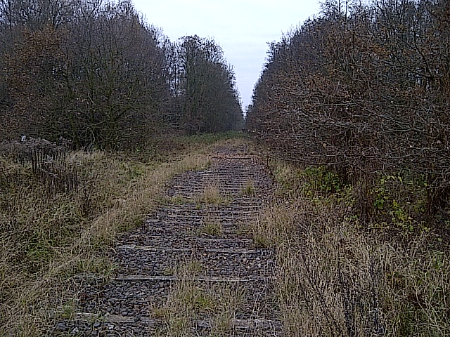 Former railroad Küstrin-Kietz - Frankfurt, north from Reitwein